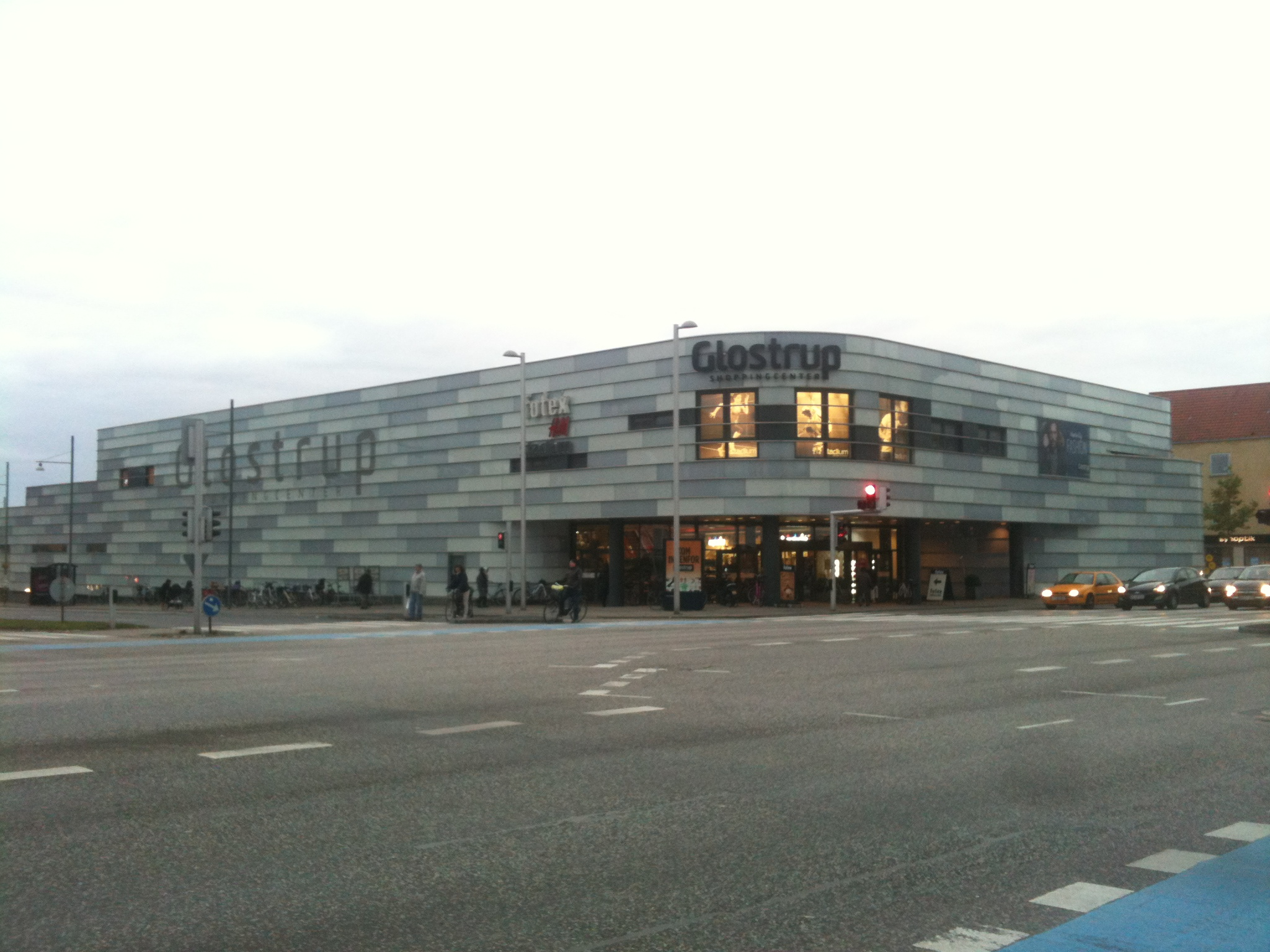 Glostrup Shopping Centre - Glostrup - Denmark